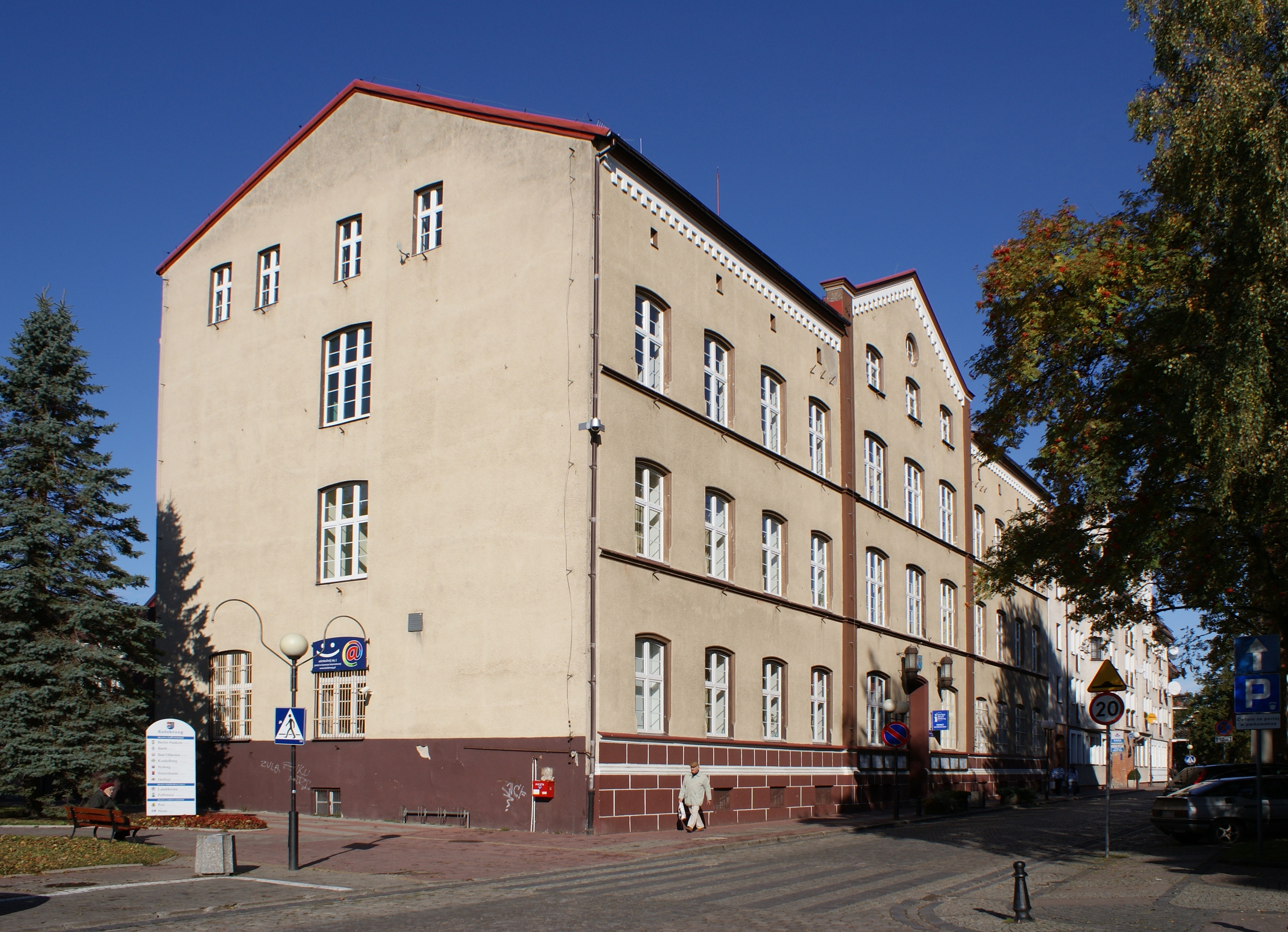 Kołobrzeg City Council seat